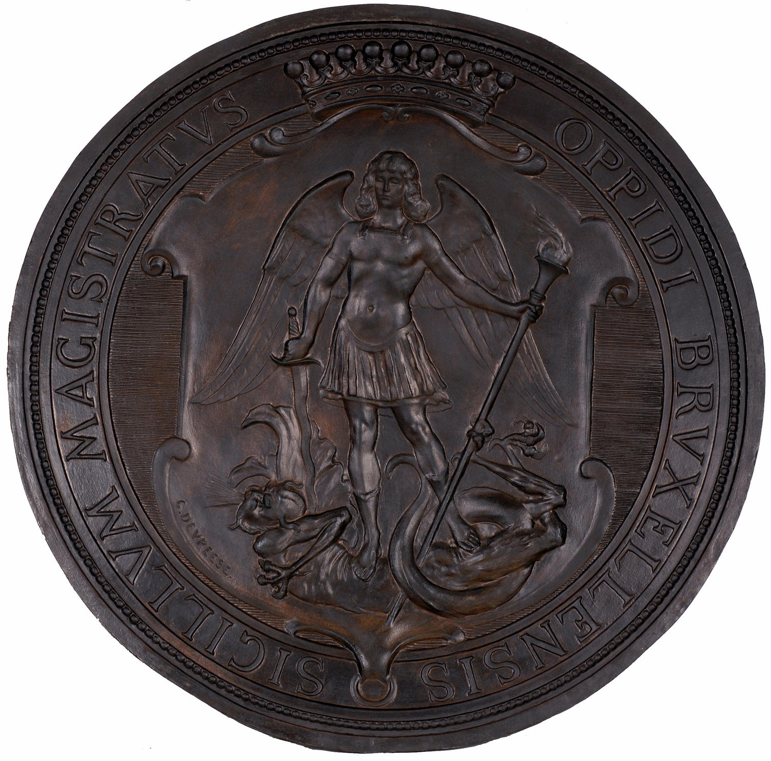 bas-relief in the collection Marie-Louise Dupont